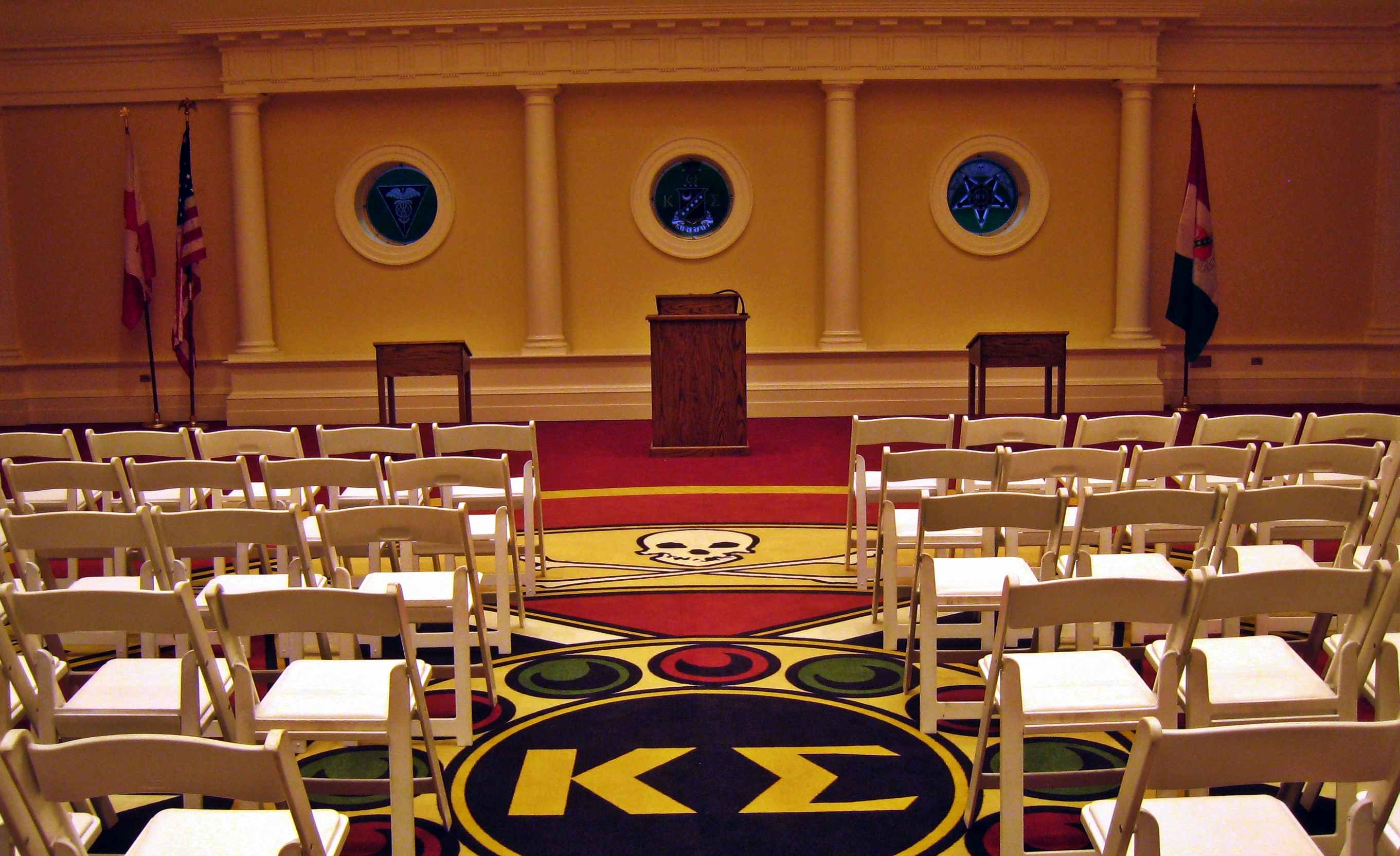 The "model chapter room" at Kappa Sigma headquarters, pictured in 2007.